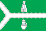 Kirovsky rayon, Kaluga oblast, Russia, flag